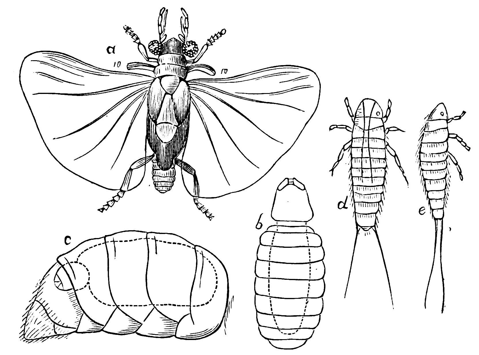 Stylops. a. male with pair of twisted wings (w). b, female (removed from host). c., shows the female, in outline, within the body of a bee; d, e, male and female after hatching